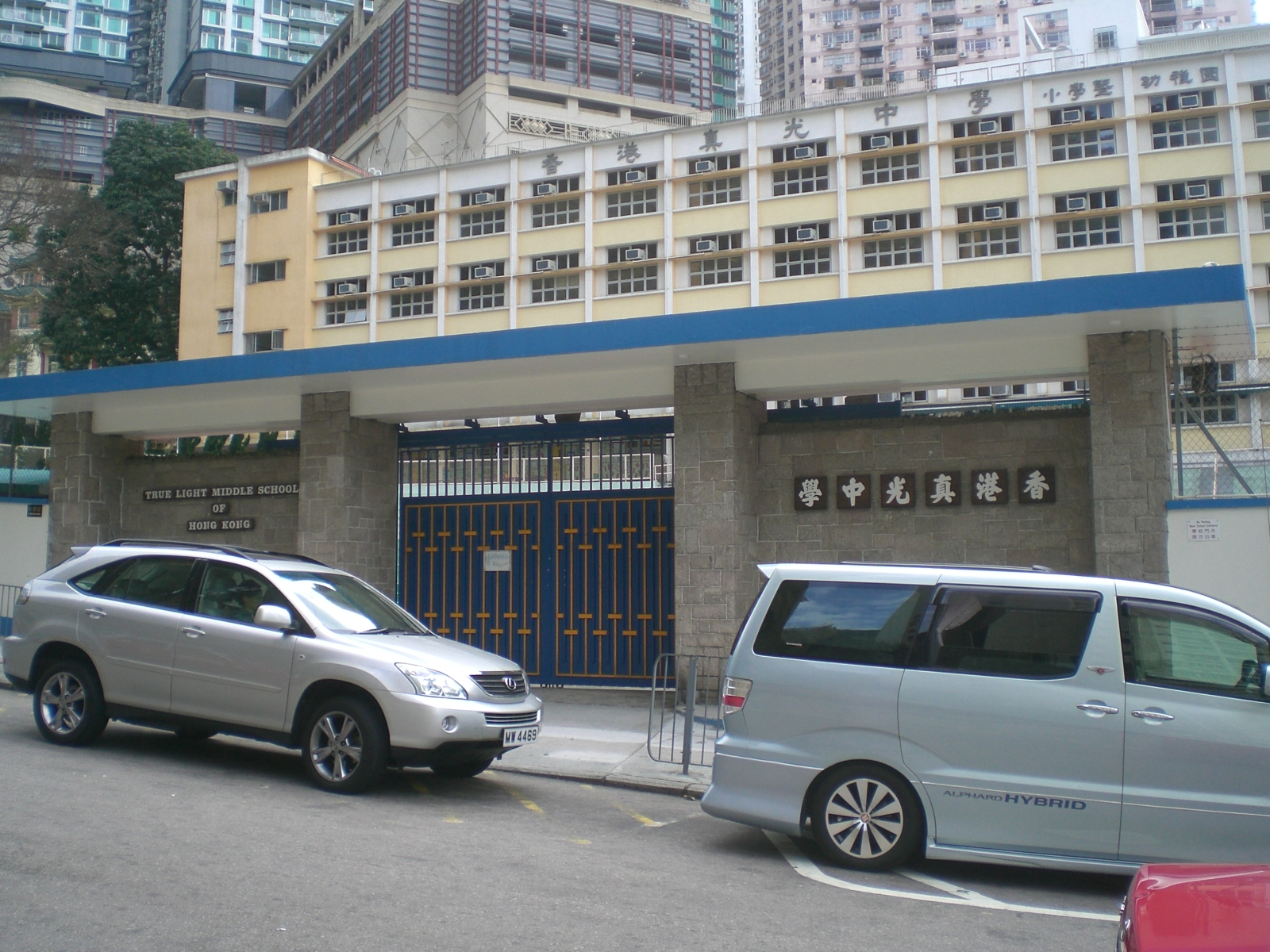 大坑 香港真光中學, 大坑道50號